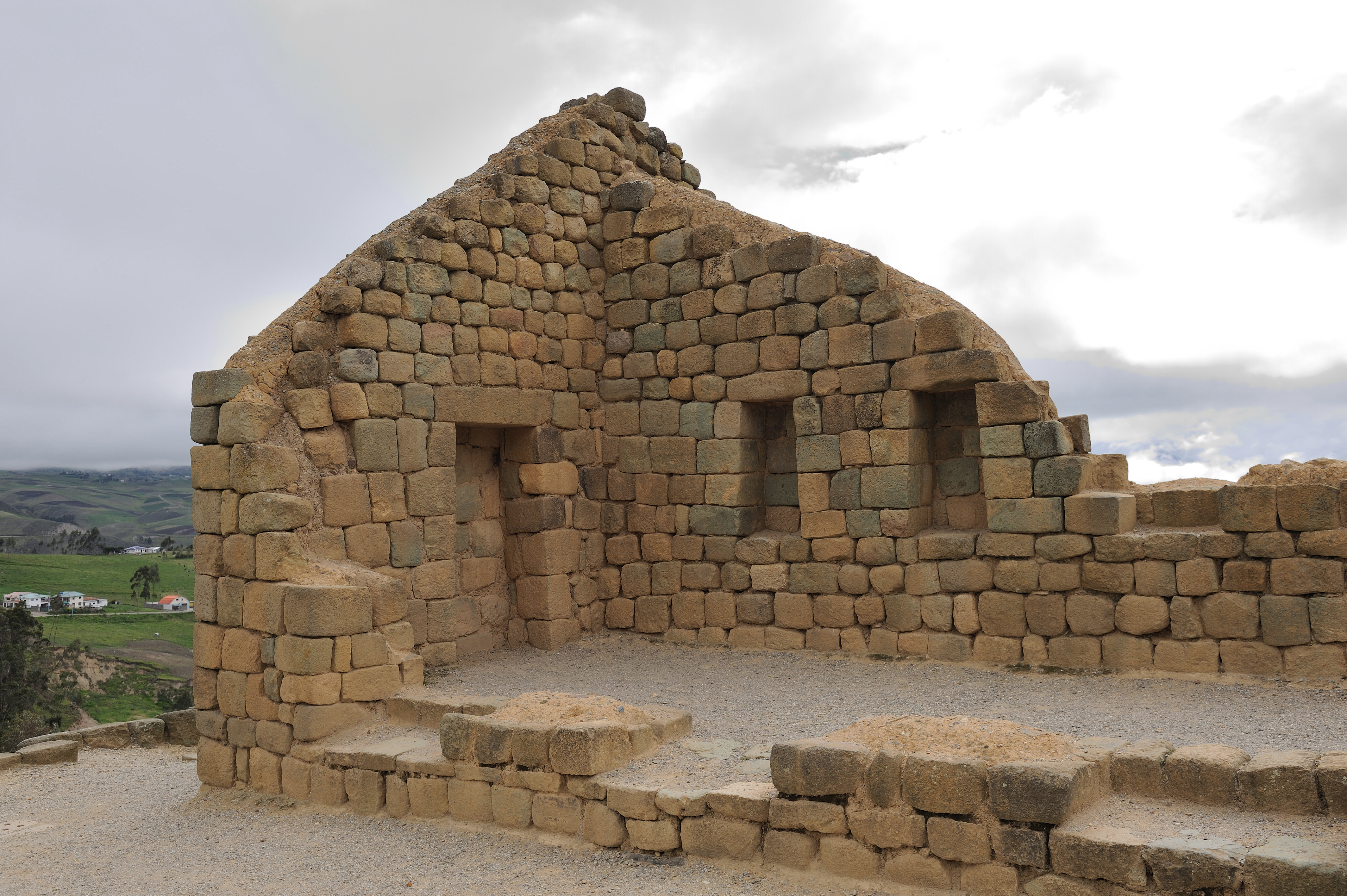 Ingapirca, Ecuador: upper part of the Incan Temple of the Sun.